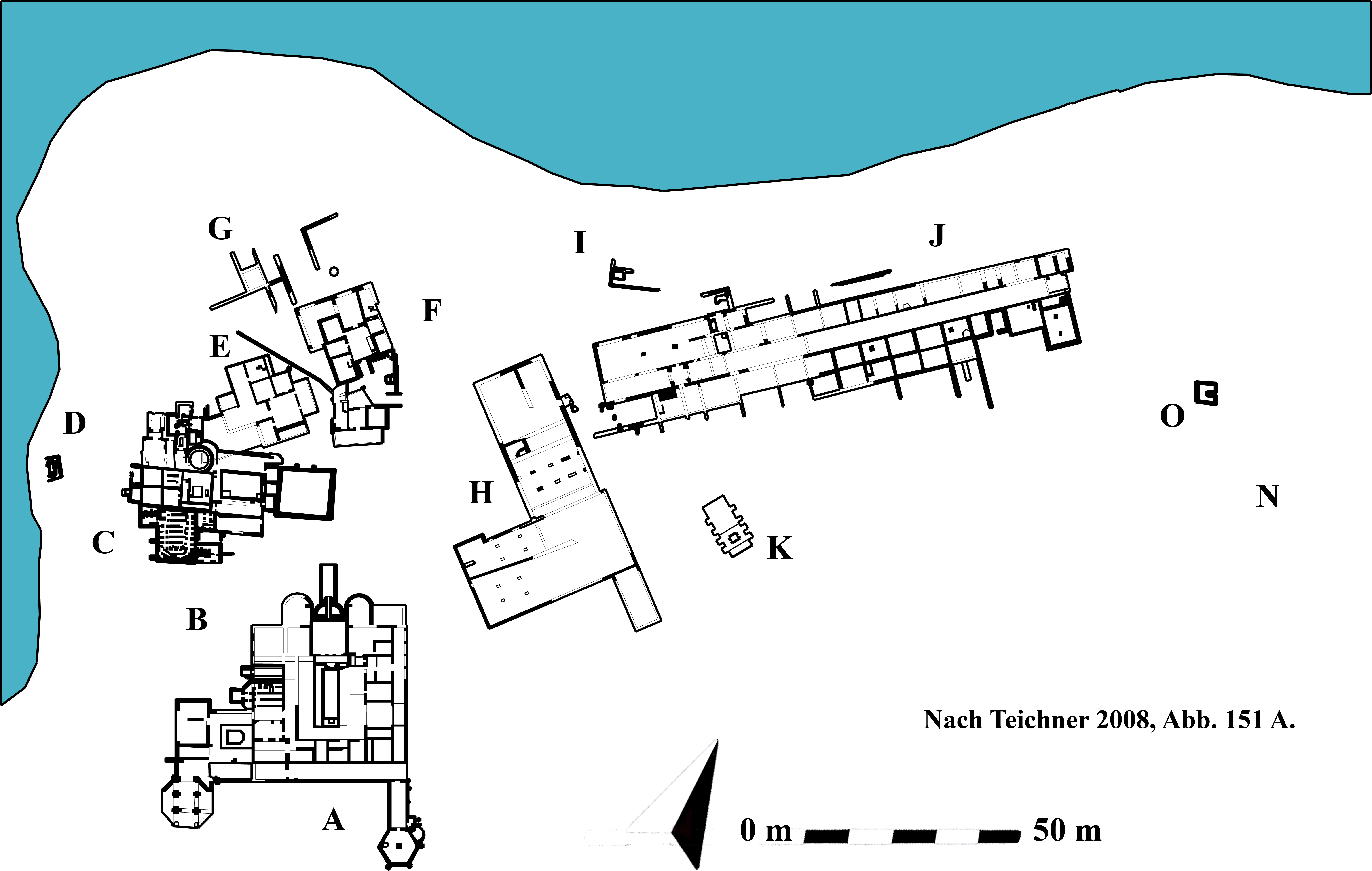 Expansion phase of the settlement, during the middle imperial period. Cerro da Vila archaeological site, in Algarve, southern Portugal. Image taken from the 2008 work Entre tierra y mar, by Felix Teichner.